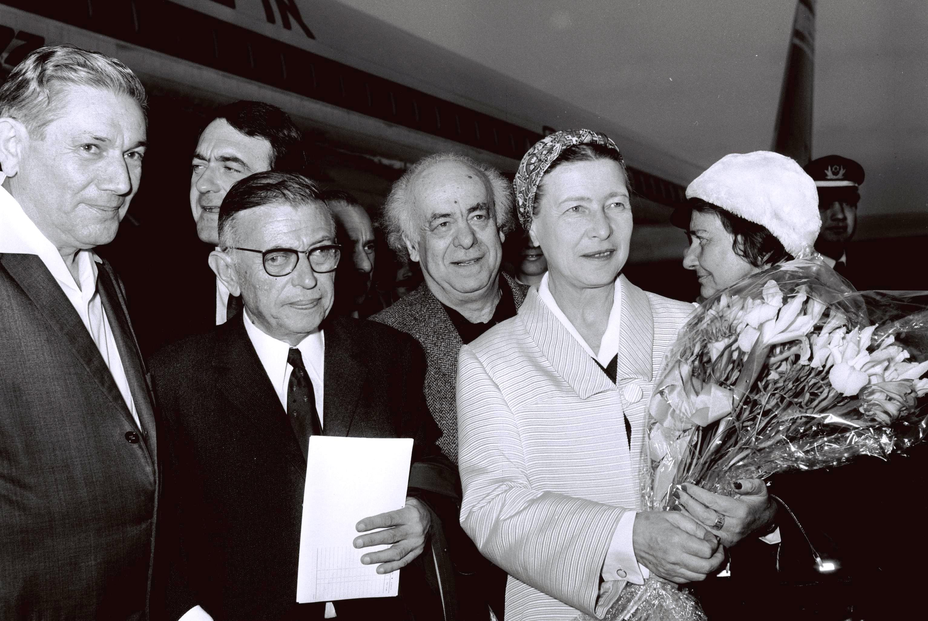 French philosopher-writer Jean Paul Sartre and writer Simone De Beauvoir arriving Israel and welcomed by Avraham Shlonsky and Leah Goldberg at Lod airport (14/03/1967).